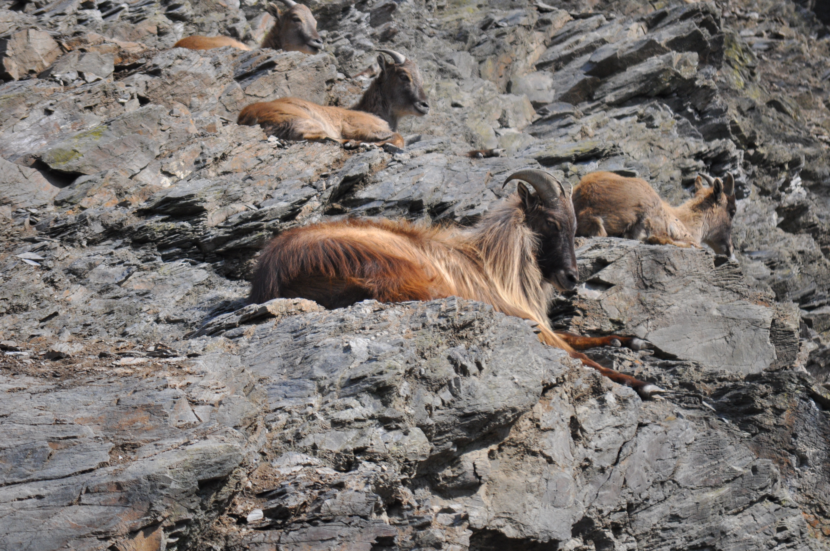 Hemitragus jemlahicus at Prague Zoo.